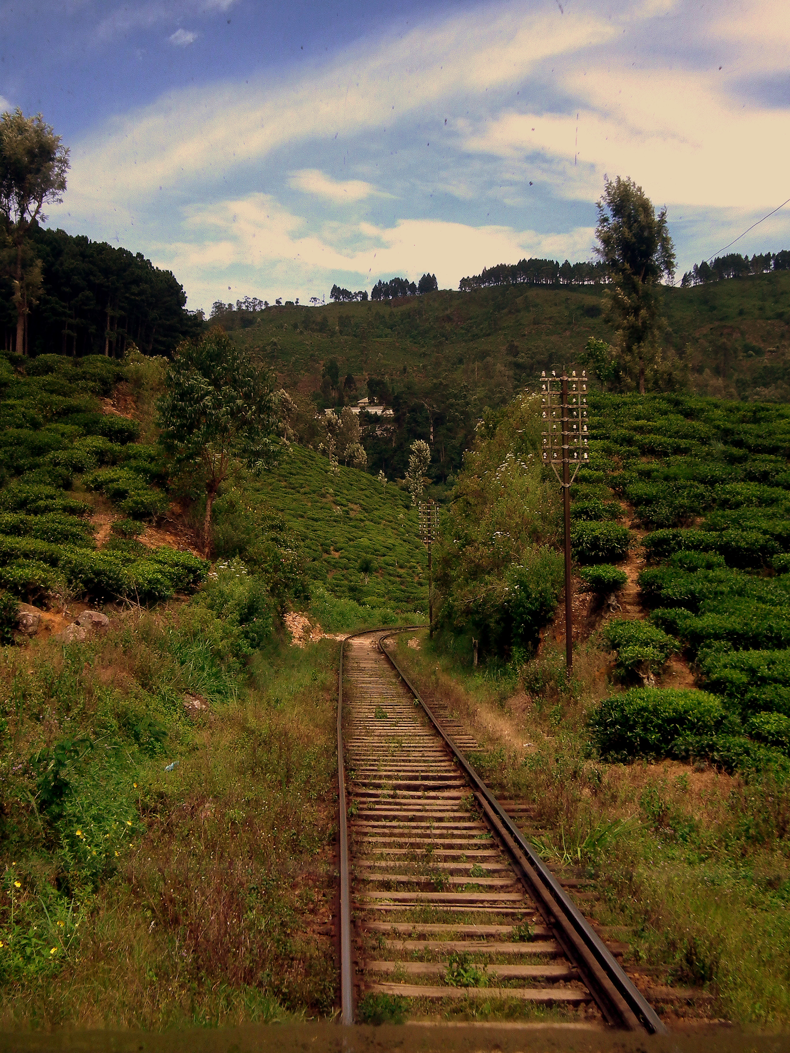 KANDY TO ELLA SRI LANKA RAIL JOURNEY JUNE 2011